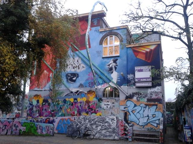 Concert venue Doornroosje in Nijmegen, main entrance